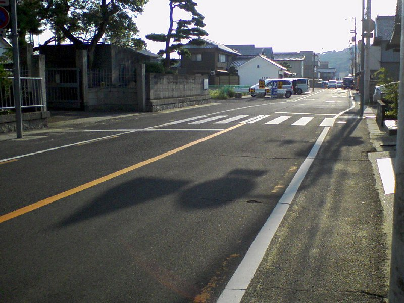 Kagawa prefectual road route 5 in Shigeki, Kan'onji, Kagawa, Japan.